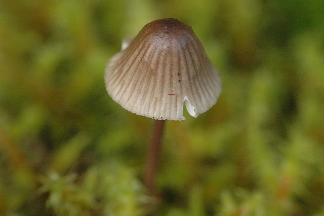 Mycenella bryophila from Commanster, Belgium. If you think this is a different taxon, please contact James Lindsey.